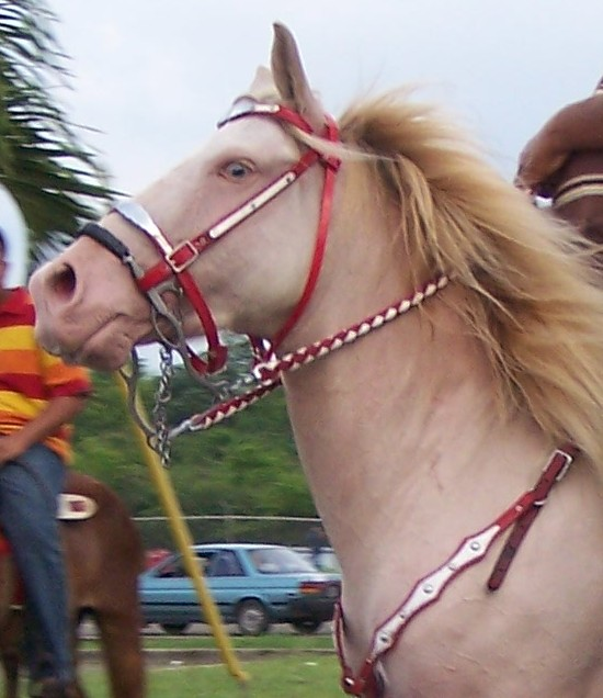 Perlino Colored Horse. Double dilute horse coat and eye color